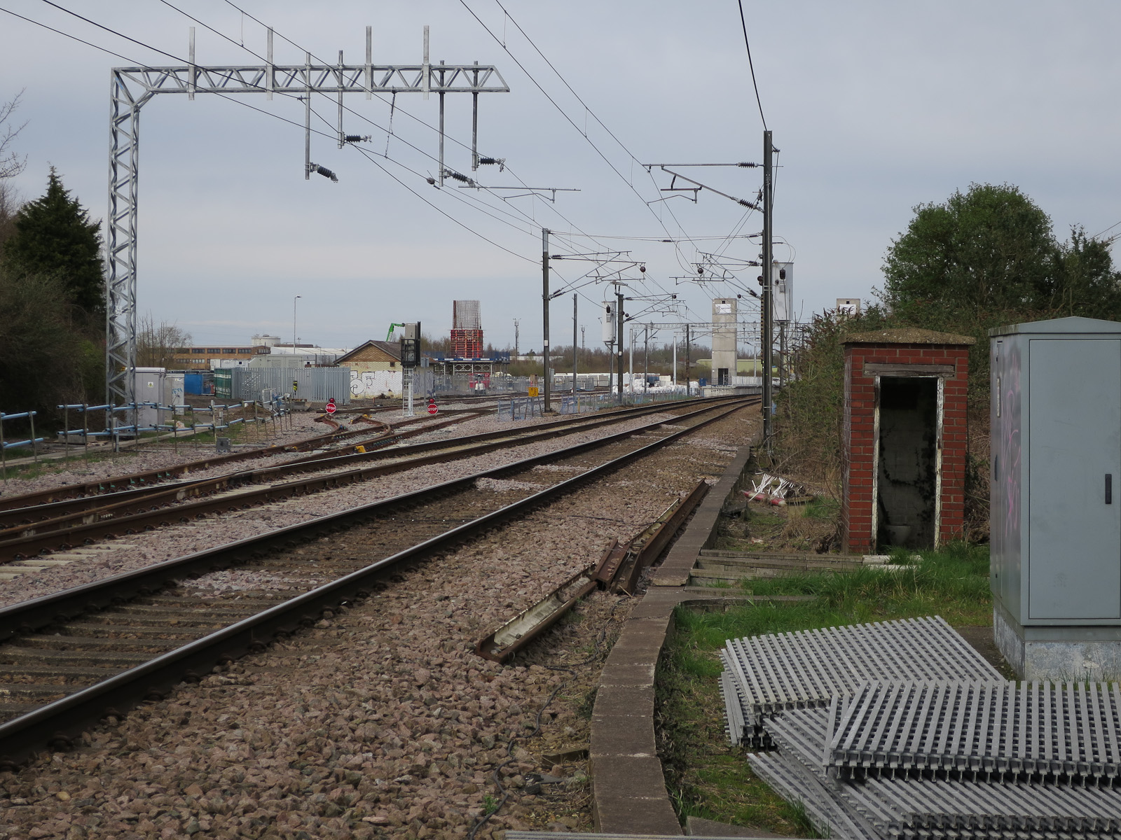 Cambridge Science Park station taking shape With a lift tower in place.